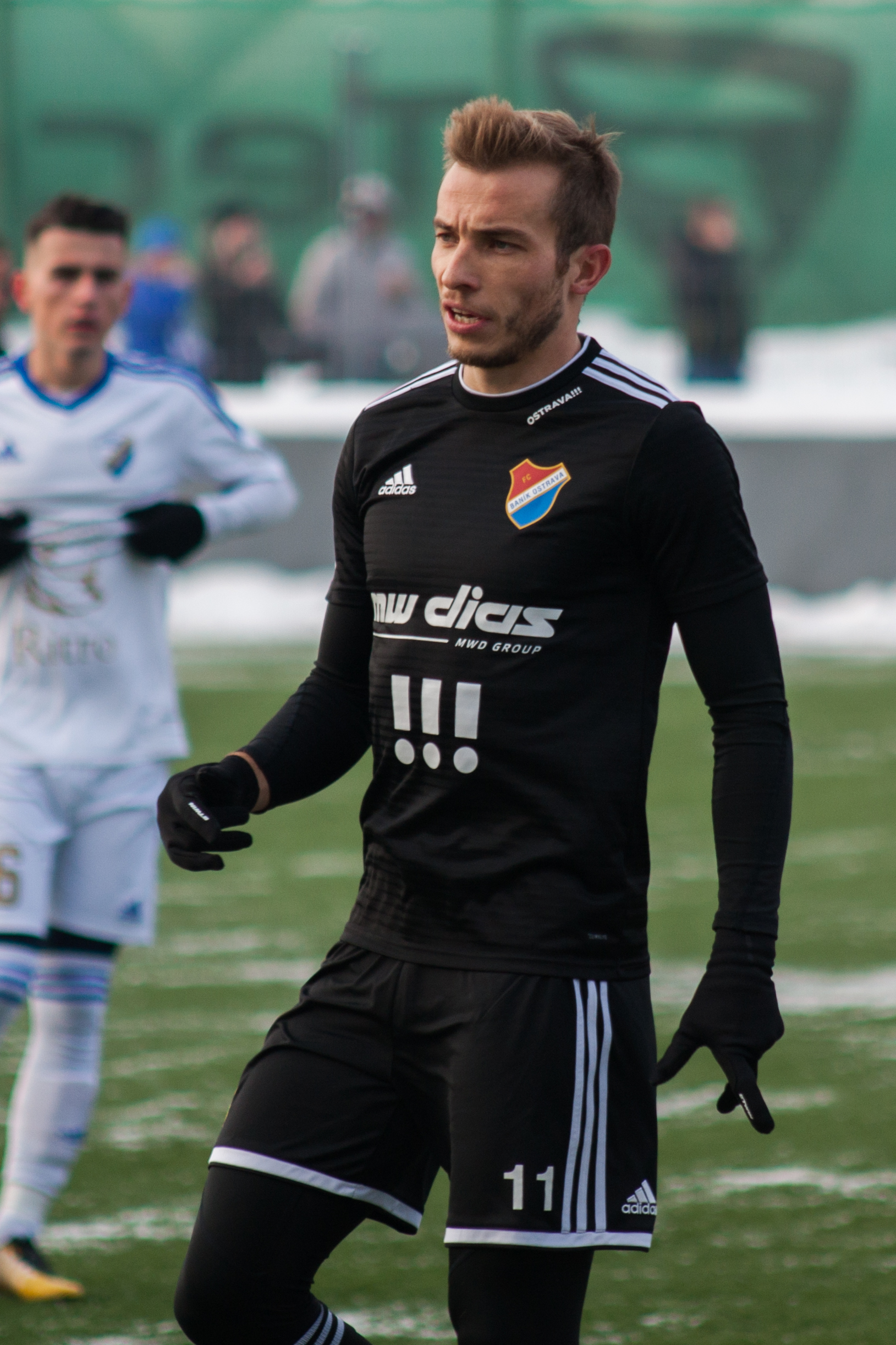 Nemanja Kuzmanovič At Czech Winter Tipsport League match FC Baník Ostrava-FK Poprad played on 11 January 2019